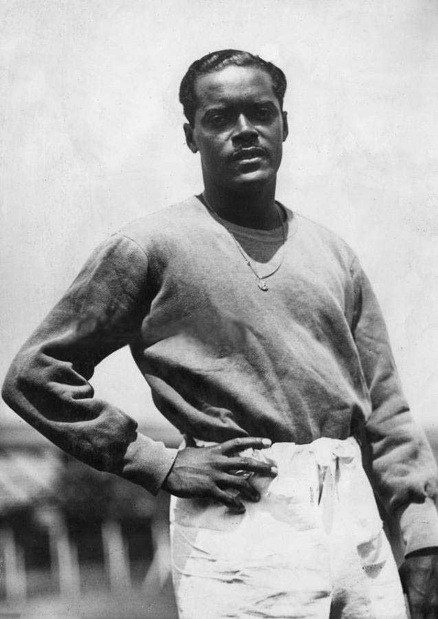 Brazilian striker, Leonidas